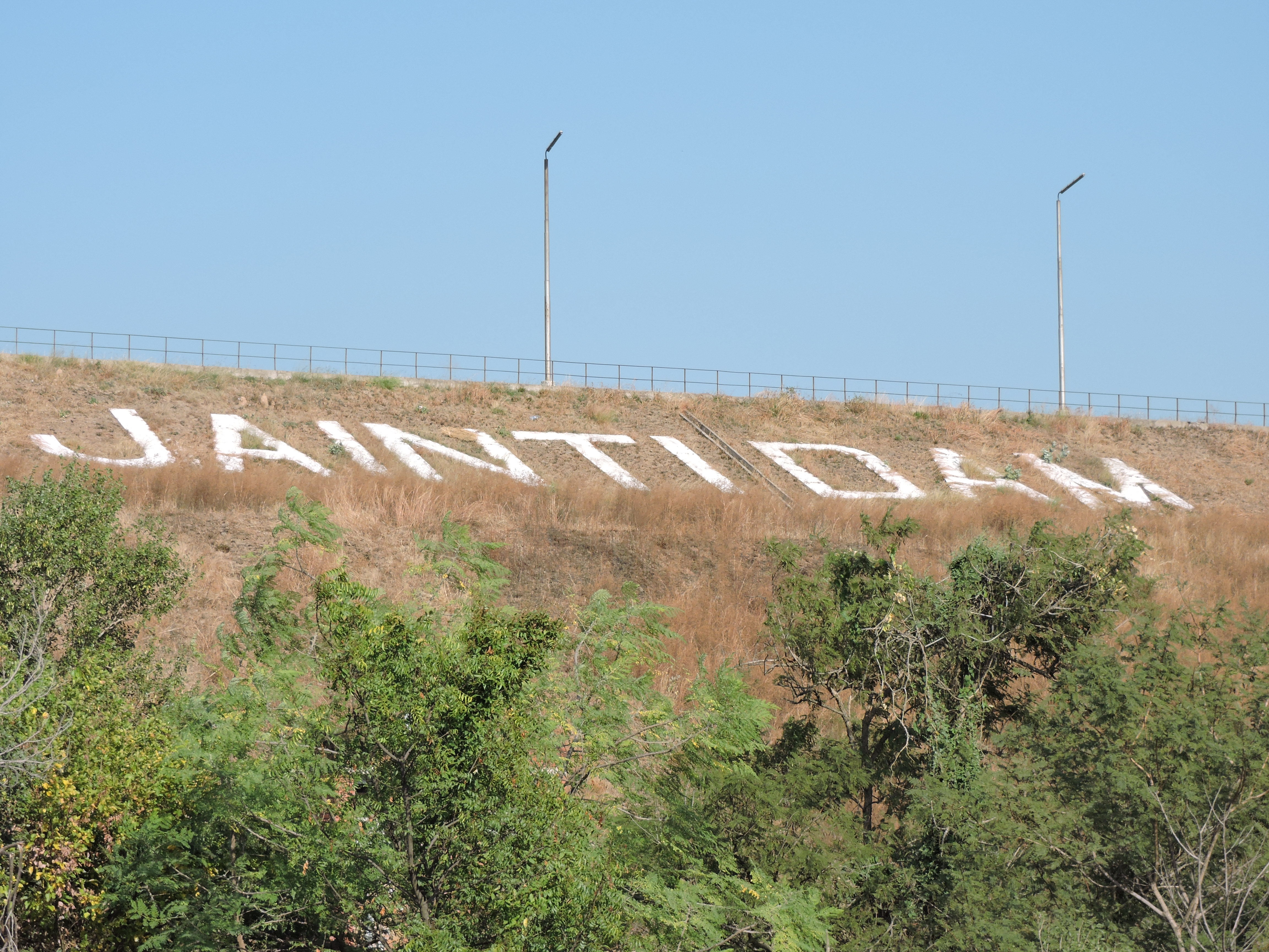 Jyanti Majri Dam, district Mohali, Punjab,India